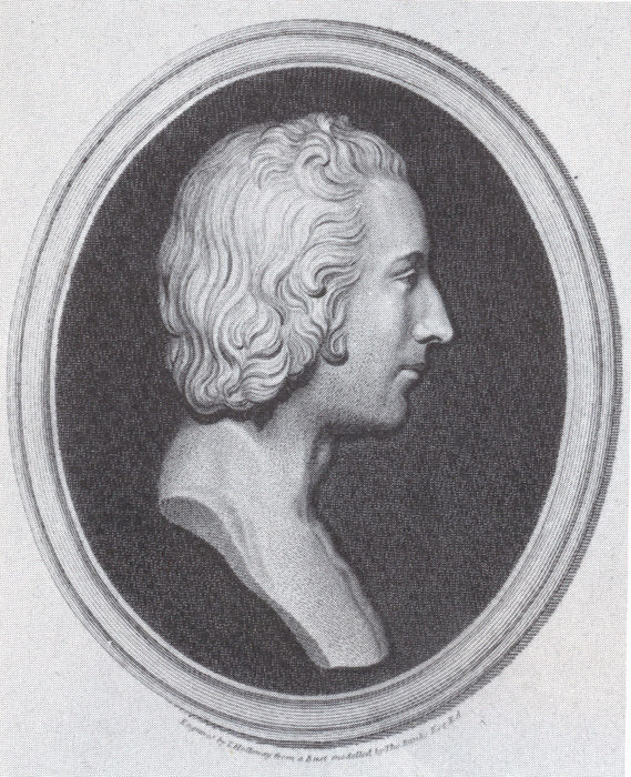 The scottish fighter for the rights of the poor and the oppressed Thomas Muir (1765-1799)